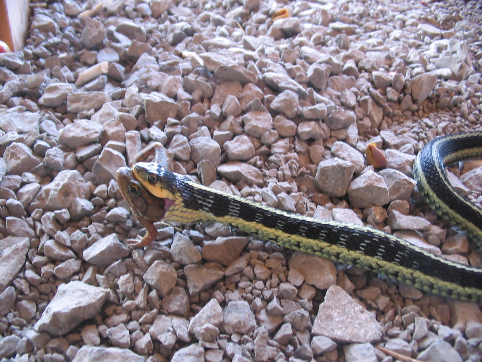 I took this photo around 11am, 14 Aug 2007 west of Ottawa, Canada. Likely Thamnophis sauritus septentrionalis or Thamnophis sauritus sauritus - based on location, most likely T. s. septentrionalis. This snake is Thamnophis sirtalis sirtalis. Note that the lateral yellow stripe occurs on the 2nd and 3rd scale rows. On Thamnophis sauritus that stripe occurs on the 3rd and 4th scale rows. The ribbon snake also has a small white or yellow bar immediately forward of the eye, garter snakes do not.